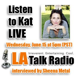 Reminder by Katherine Brooks about her interview with Sheena Metal